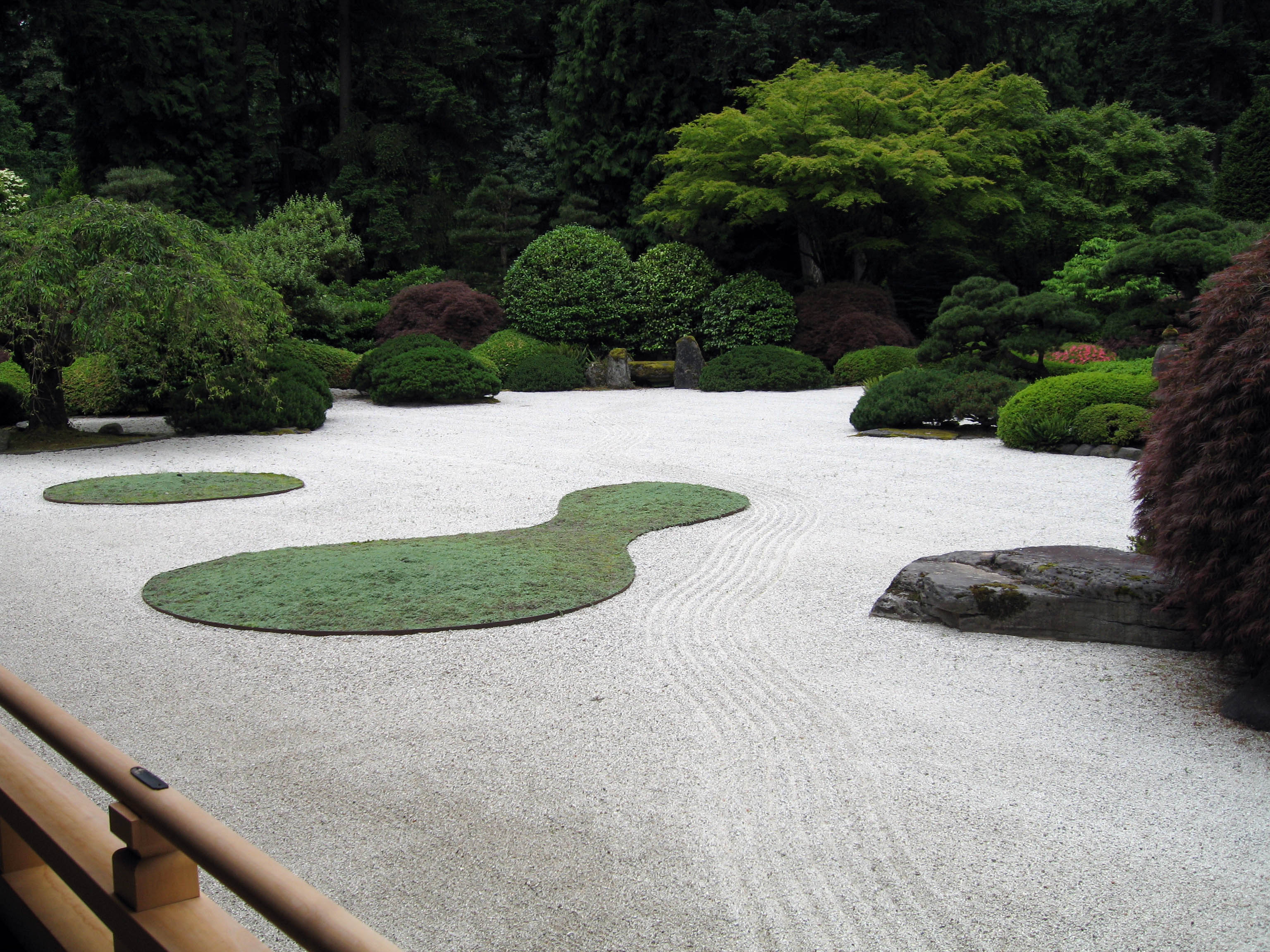 Dry garden at Portland Japanese Garden